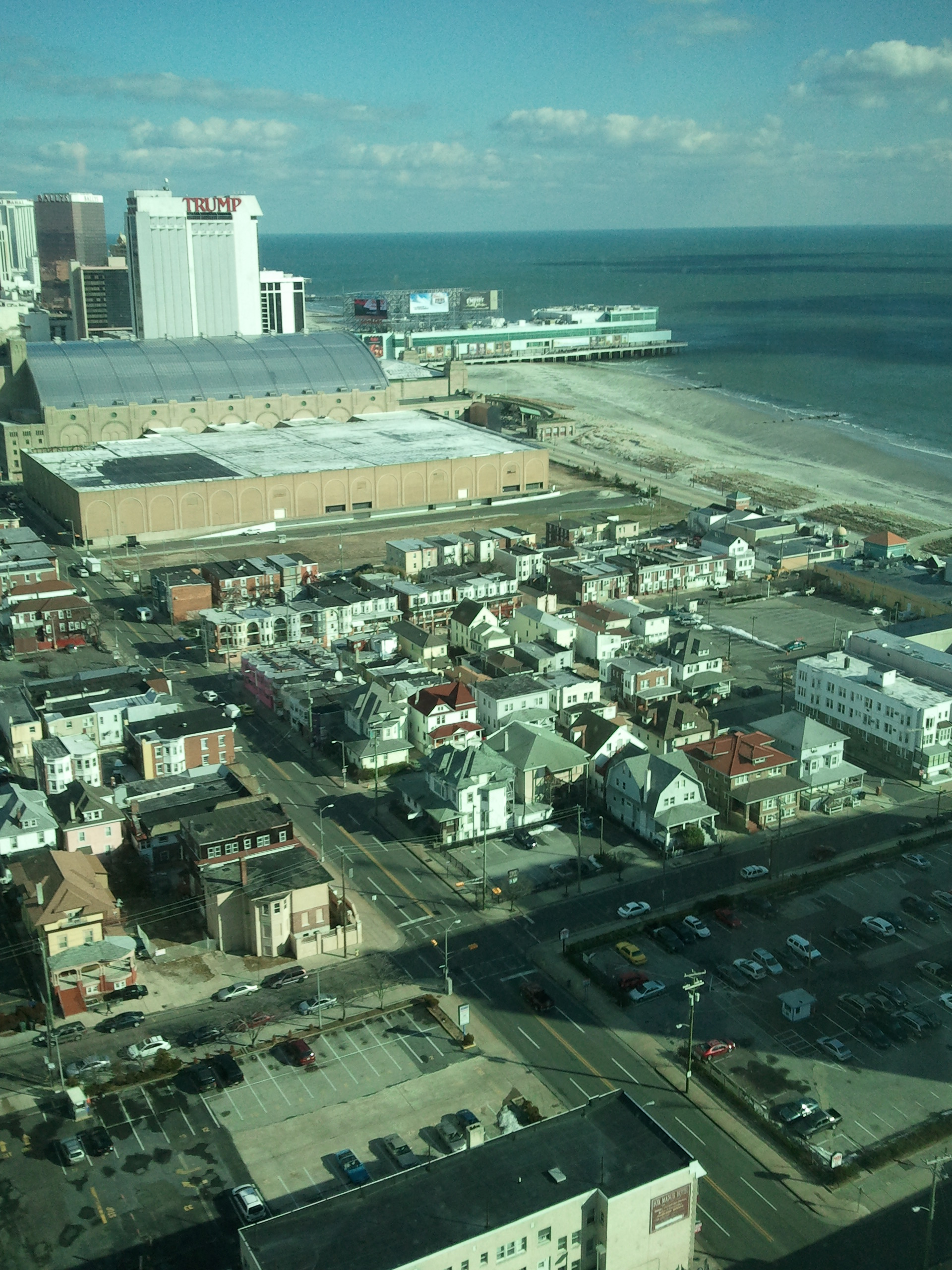 A view of the Atlantic City Boardwalk from the Tropicana Casino Hotel